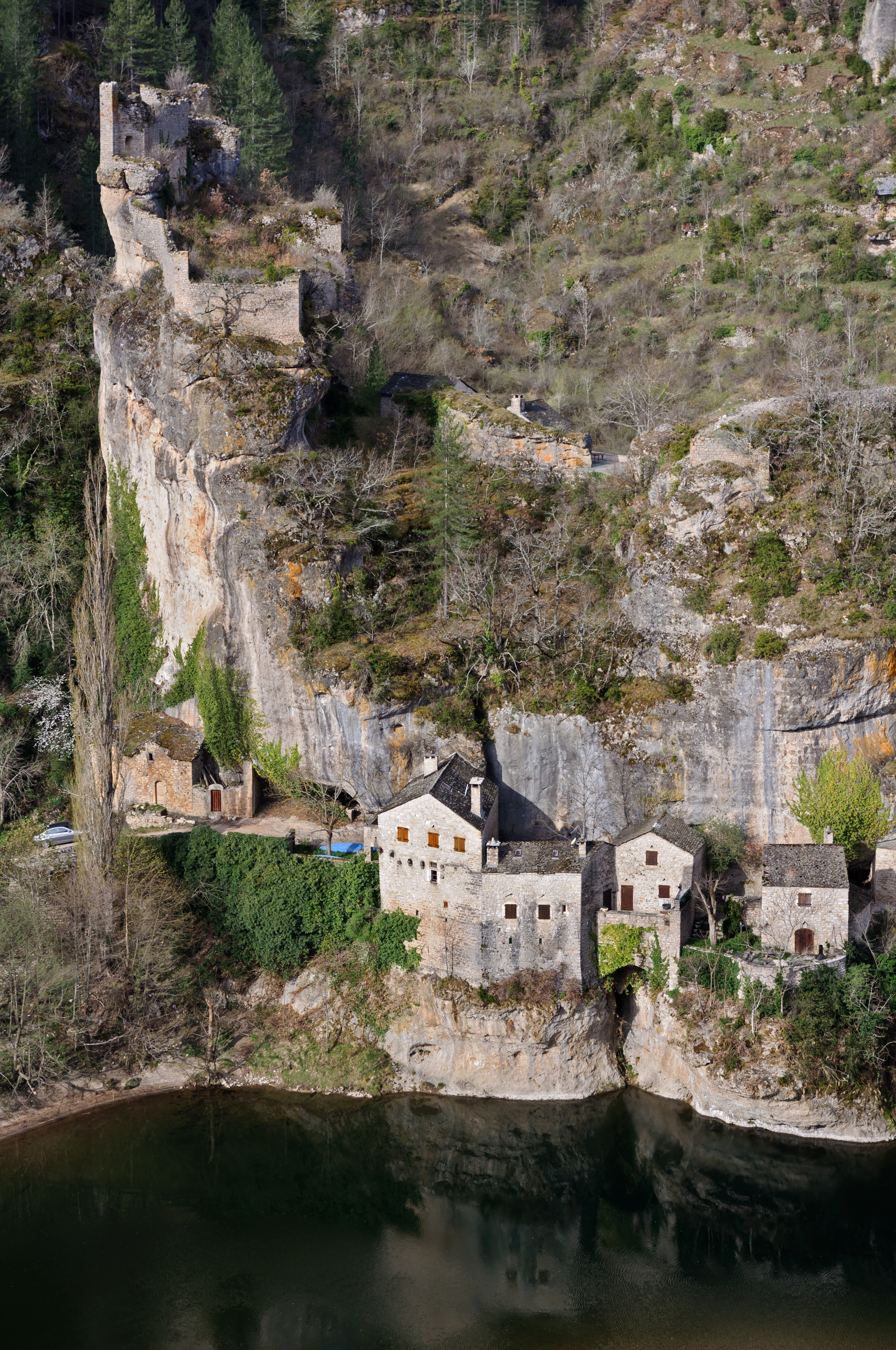 Castelbouc, in the Gorges du Tarn, Lozère, France, overlooked by its ruined castle.